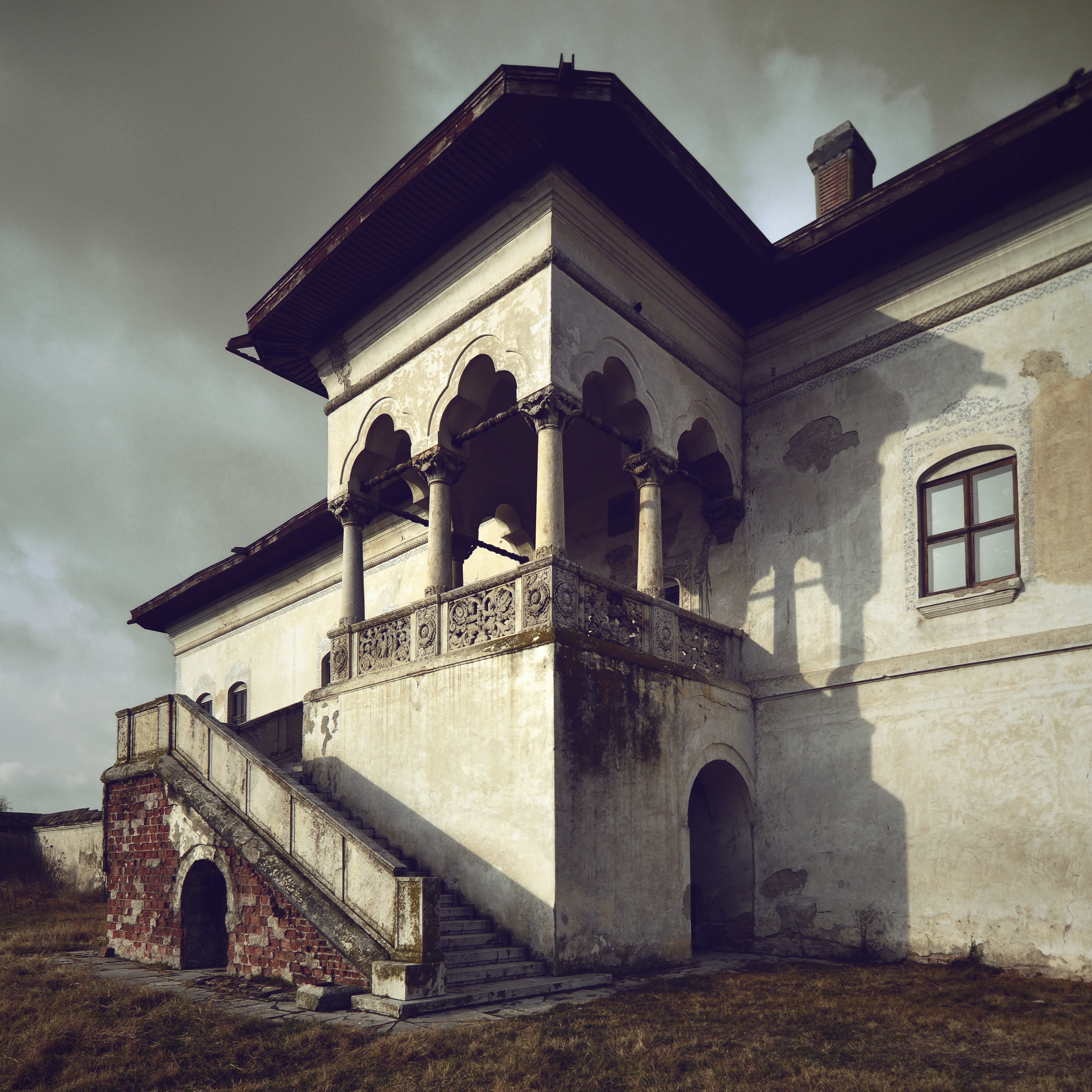 Potlogi Palace near Bucharest [hard to reach on bad roads, partially ruined and neglected] built by Constantin Brancoveanu finished in 1698 [and practically rebuilt in the 1950's] Brâncovenesc architectural style [incomplete list of buildings] Constantin Brâncoveanu [1654 – 1714] was Prince of Wallachia between 1688 and 1714. Wallachia